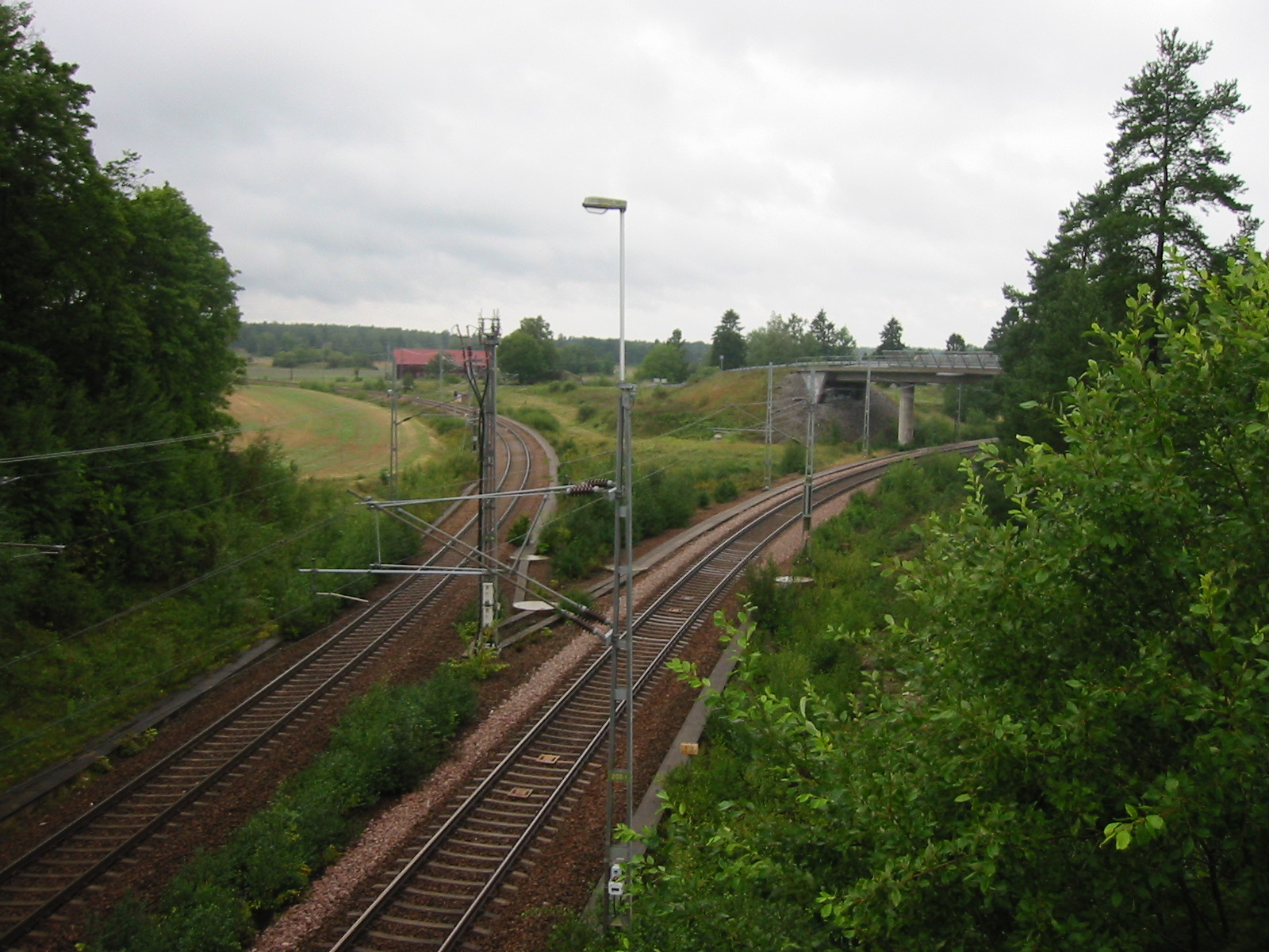 Tumbo, view west from road bridge. The track turning left is Svealandsbanan towards Kungsör and Arboga. The track turnning right is the track to Kvicksund and Kolbäck.